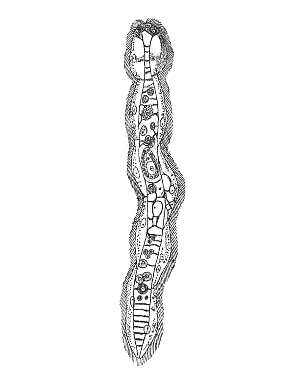 Morphlogy of Dicyema macrocephalum (nematogen stage).